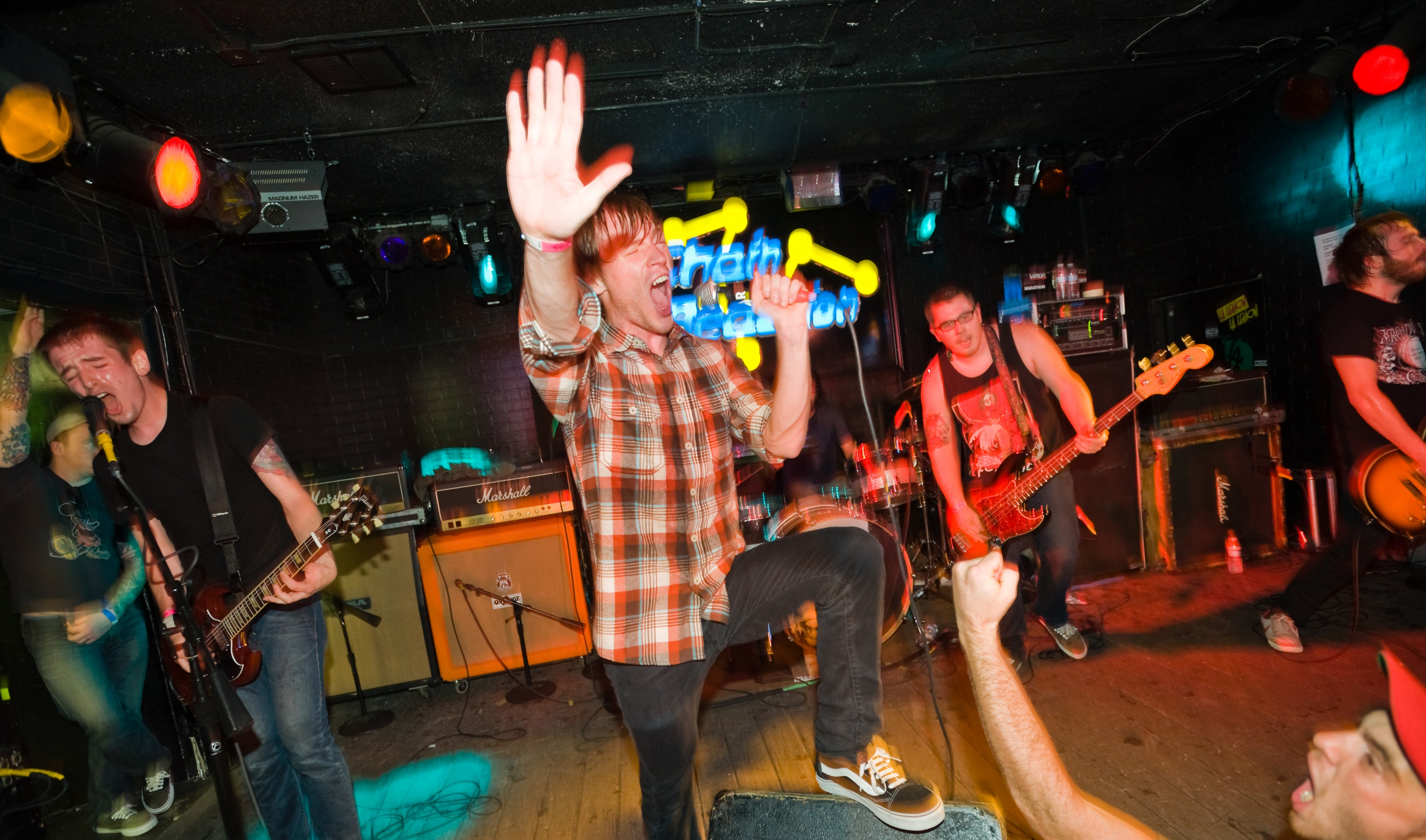 Polar Bear Club performing at Chain Reaction in California in 2009